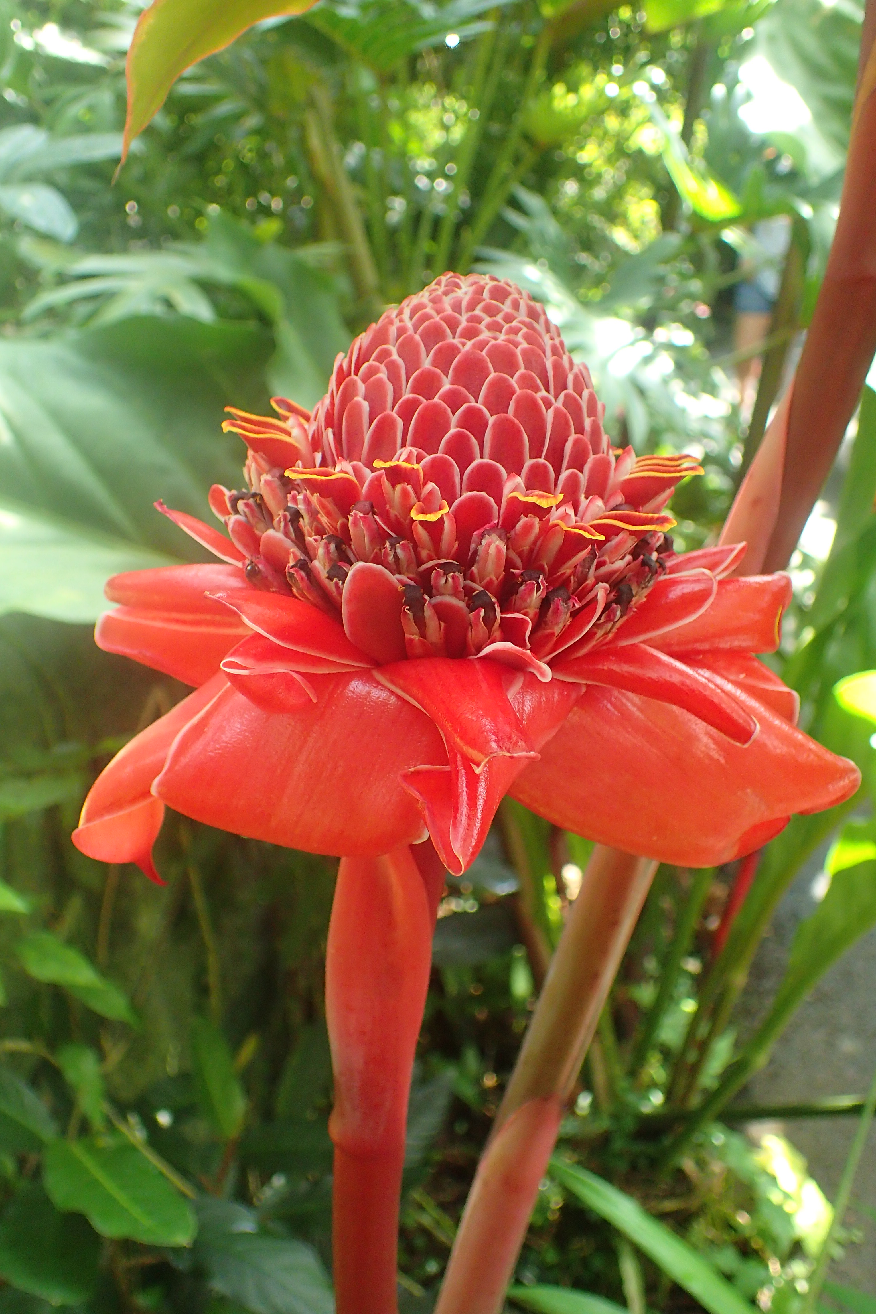 Etlingera elatior in the Missouri Botanical Garden, St. Louis